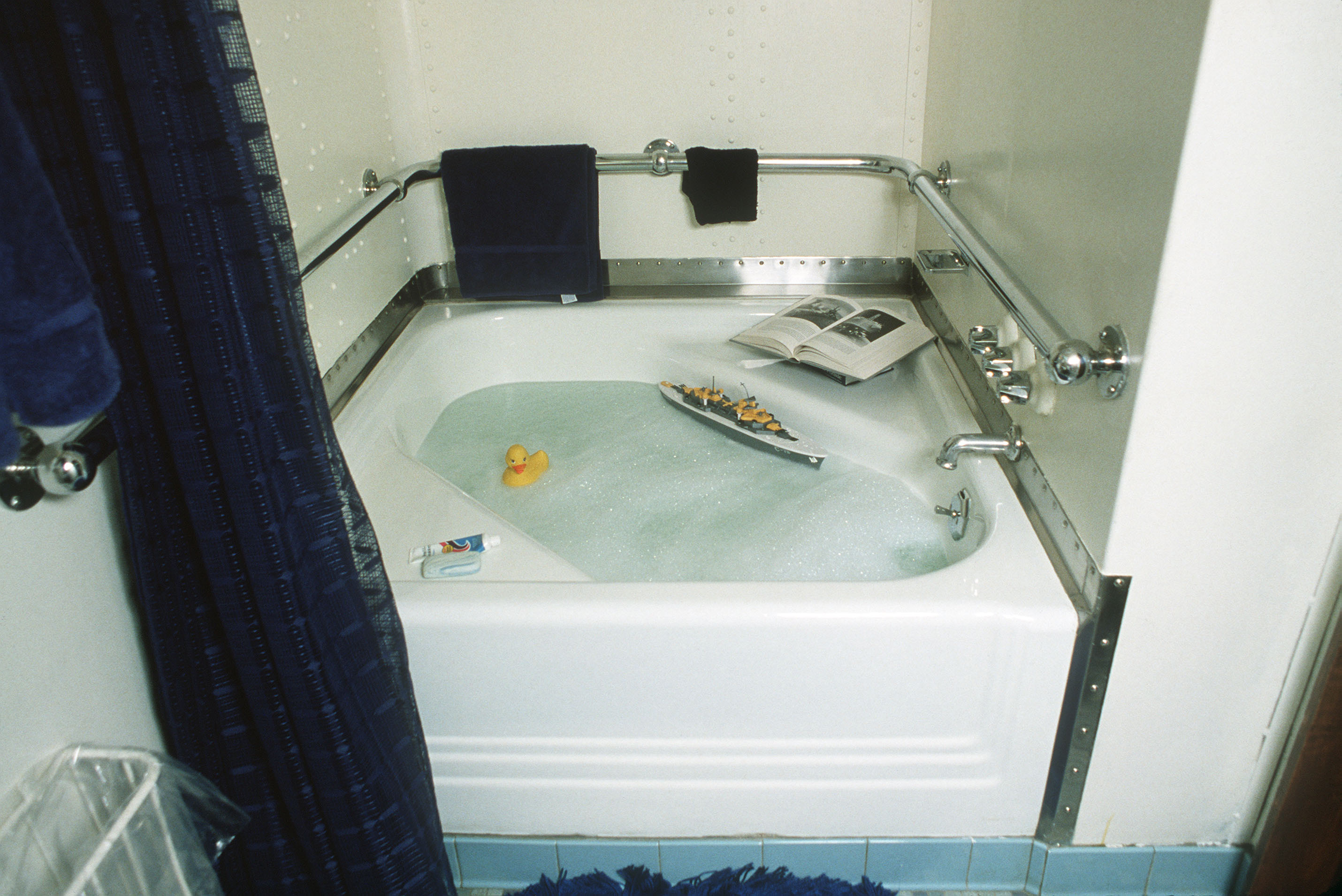 The bathtub on the battleship USS Iowa (BB-61). It was installed as a convenience for President Franklin D. Roosevelt when he crossed the Atlantic Ocean to Casablanca, Morocco on the first leg of the trip to Tehran, Iran to meet with British Prime Minister Winston Churchill and Soviet leader Joseph Stalin.